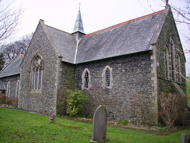 St. Thomas's Church Crosscrake Near Sedgewick